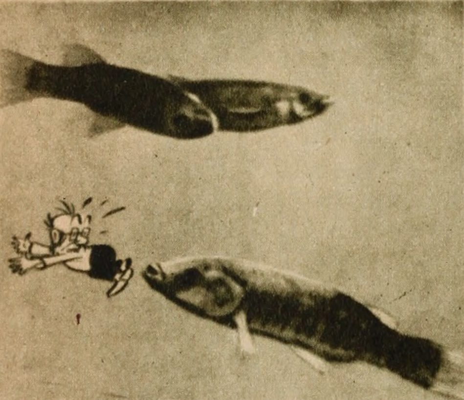 Colonel Heeza Liar's Treasure Island, still 1